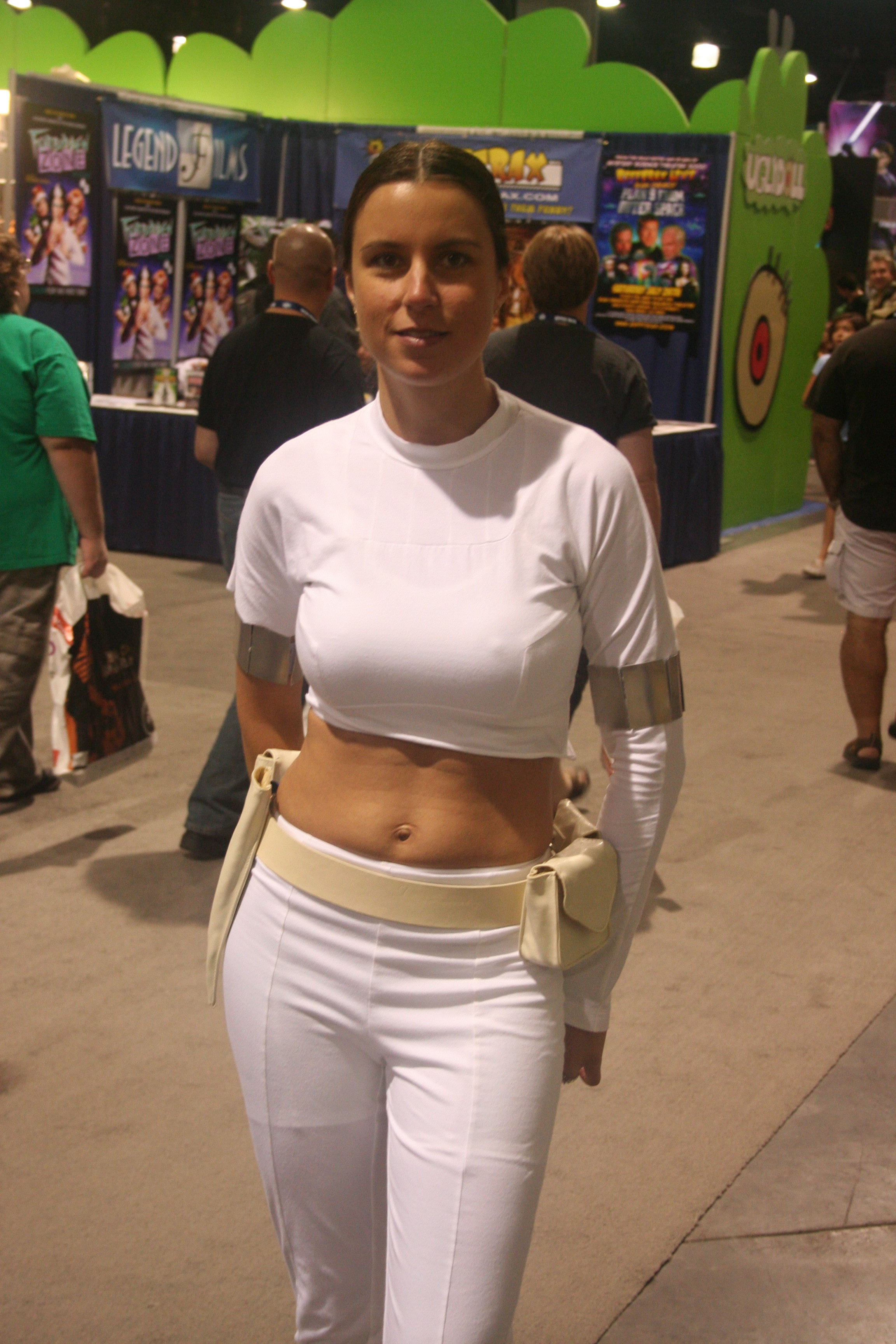 This lady presents a welcome change to all the "Slave Leias" usually seen at Comic-Con. Here she was dressed as Amidala, as seen at the end of Star Wars III - Revenge of the Sith. She was with her little daughter, who was dressed as a junior rebel.